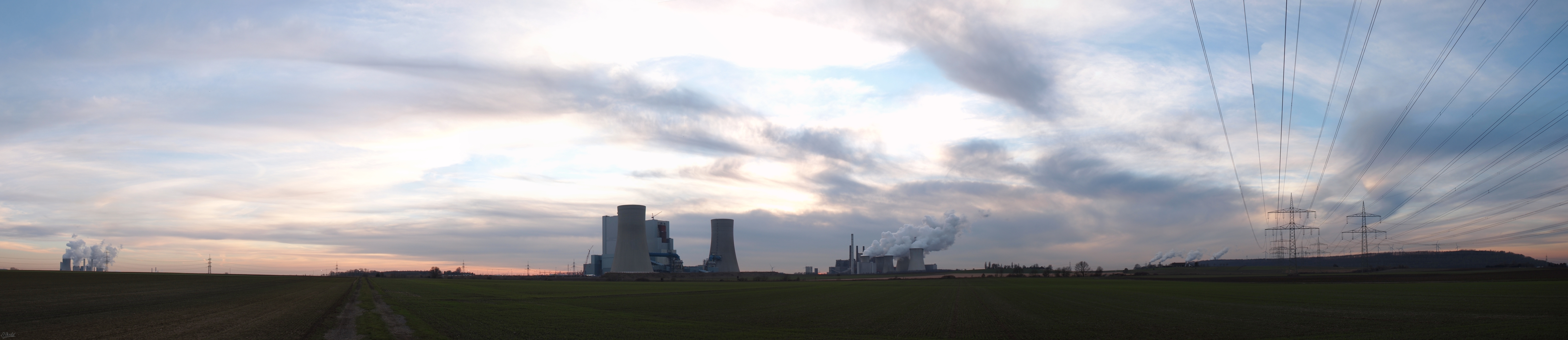 Panorama of the powerplants Niederaußem, Neurath and Frimmersdorf from left to right. On the right you can see the mining dump Vollrather Höhe.